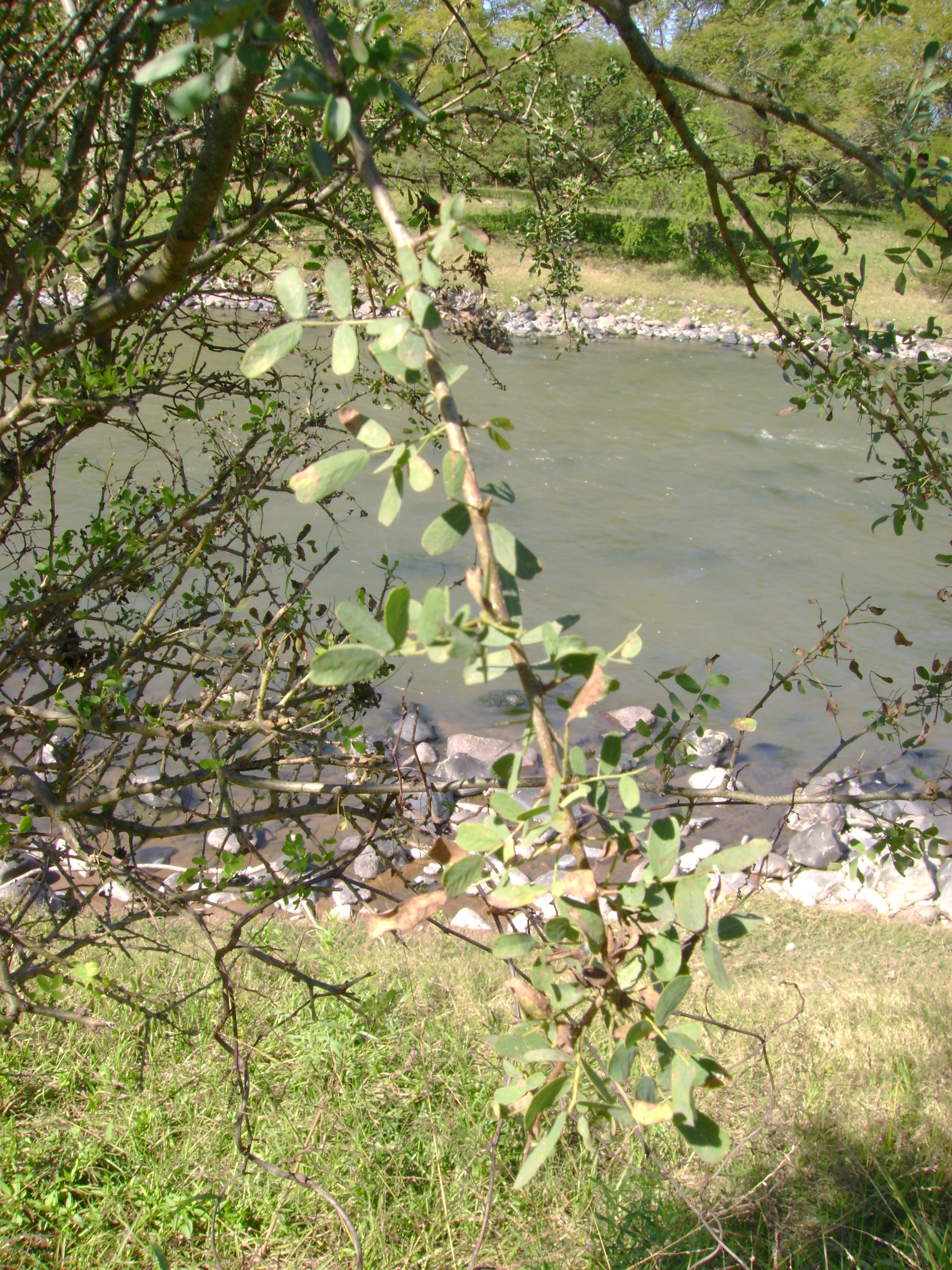 Leaves of Geoffroea decorticans